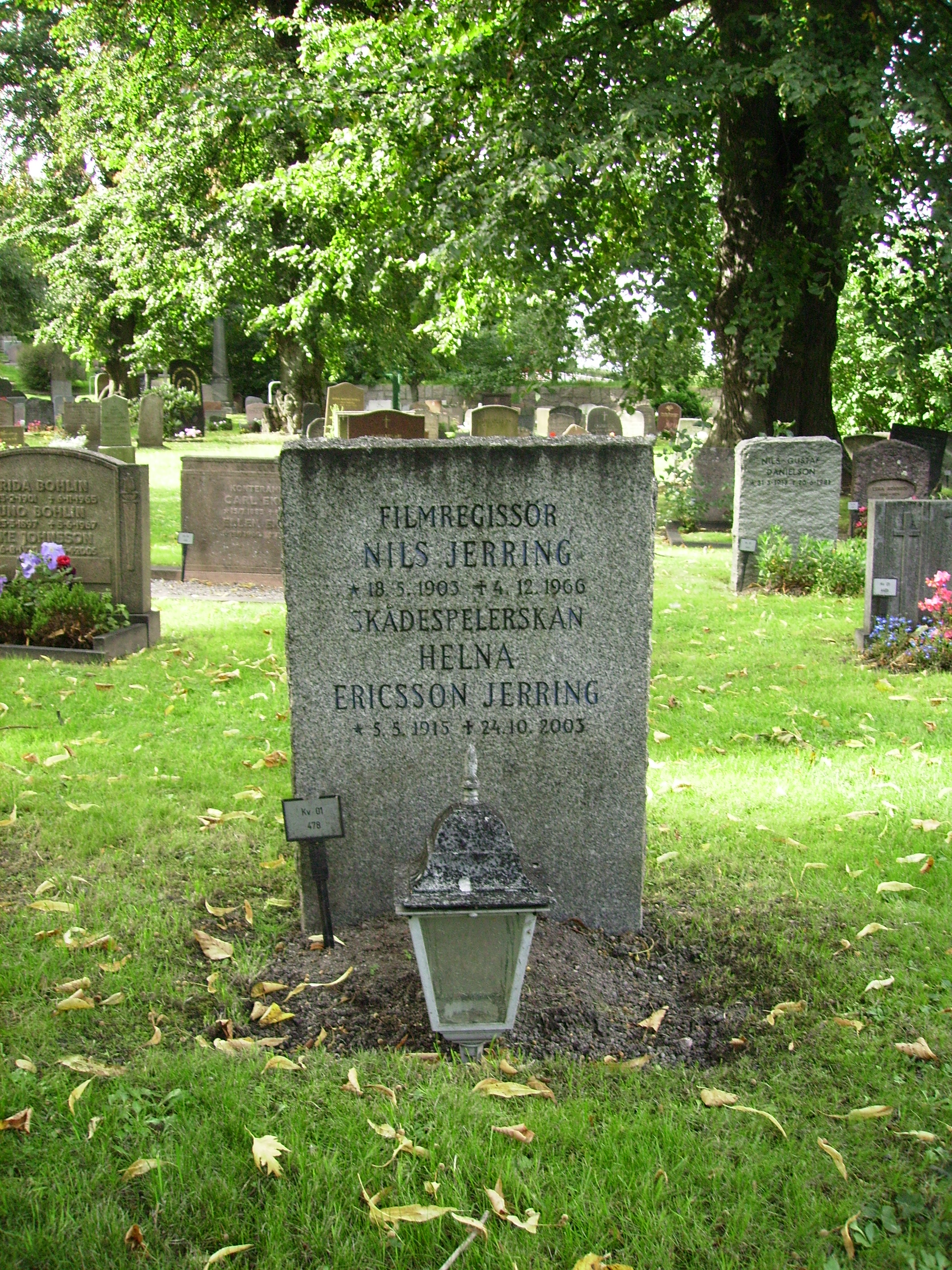 Picture of Nils Jerring's grave at Galärvarvskyrkogården in Stockholm